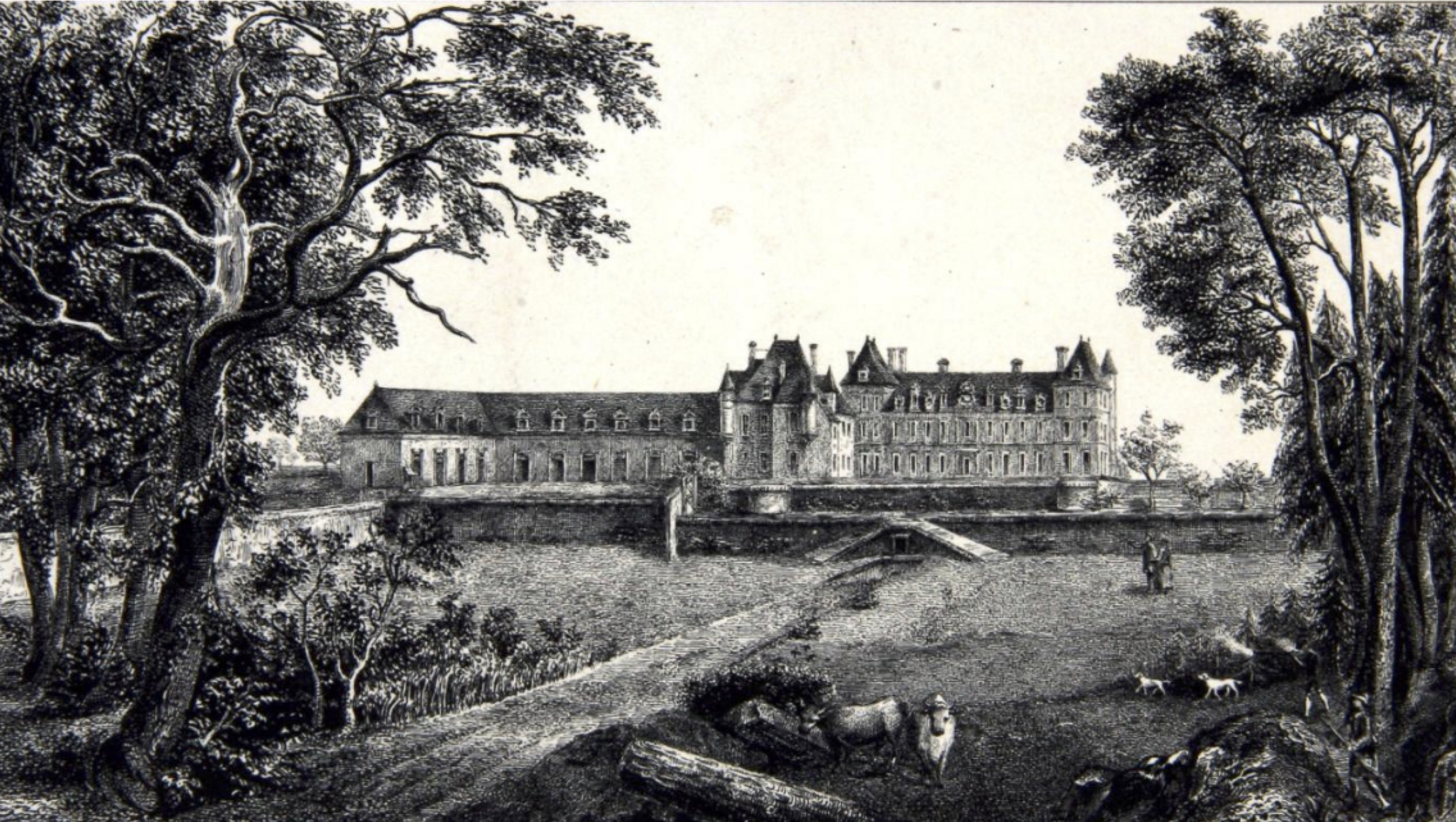 Château de La Bourdaisière, vers 1770